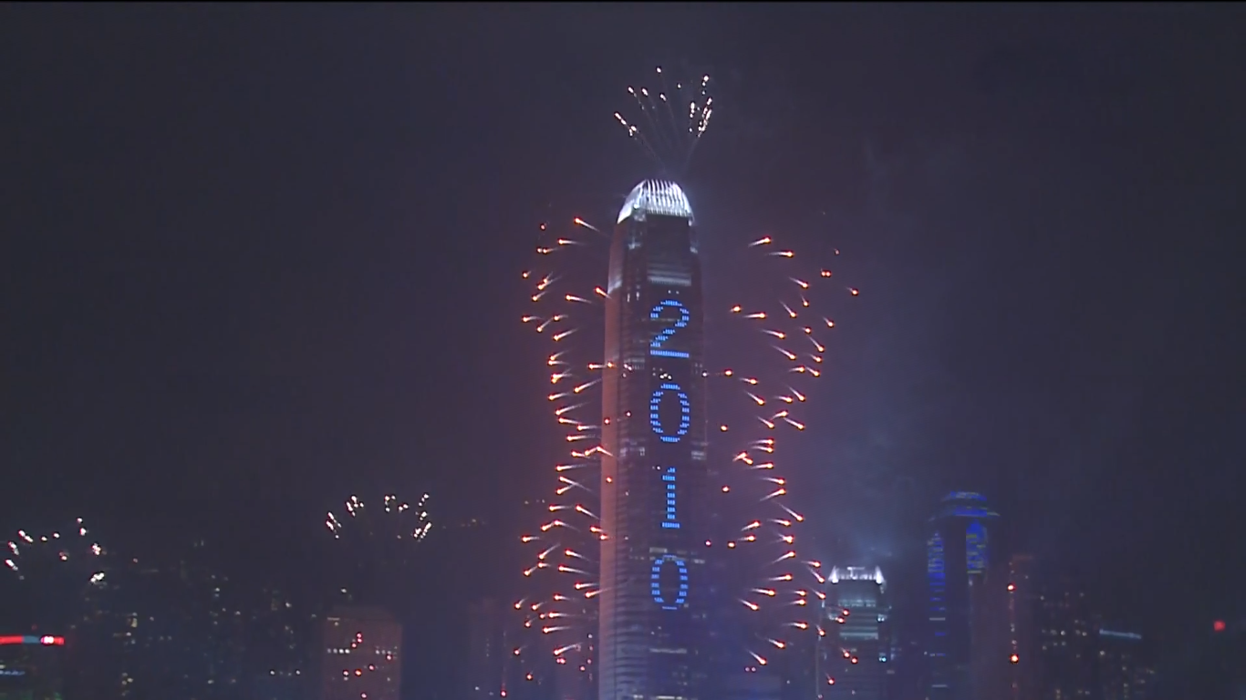 Hong Kong's New Year 2010 Countdown